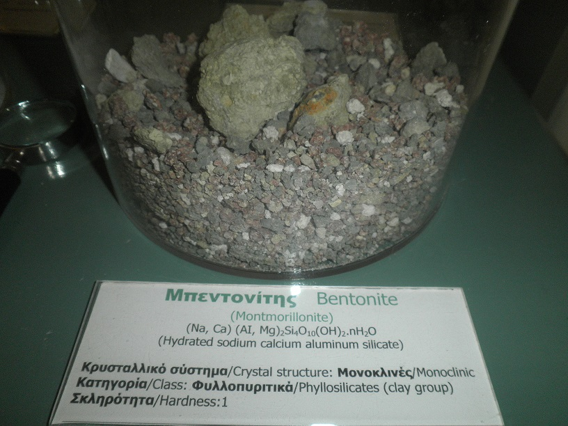 Greek Bentonite, MIlos Mining Museum